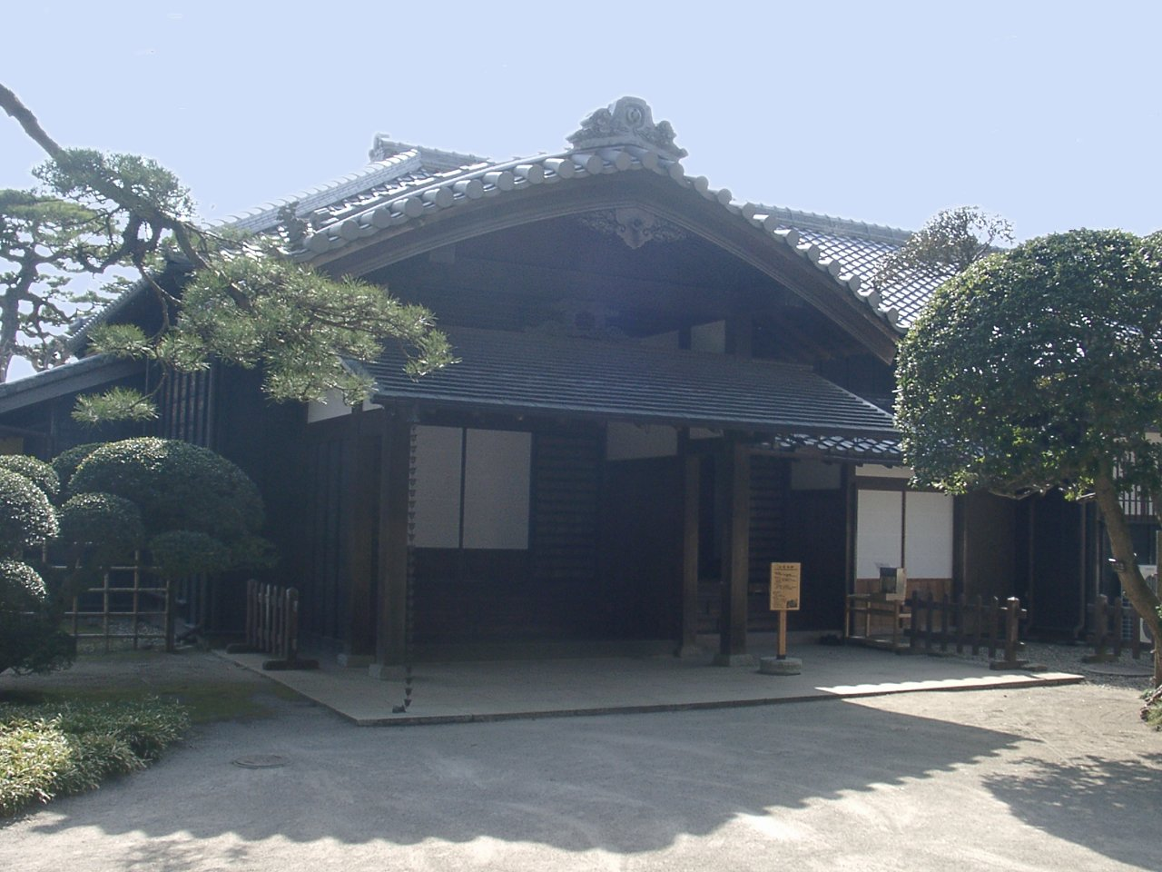 Feudal Lord Hotta's Residence "KYU-HOTTA-TEI"(entrance area)